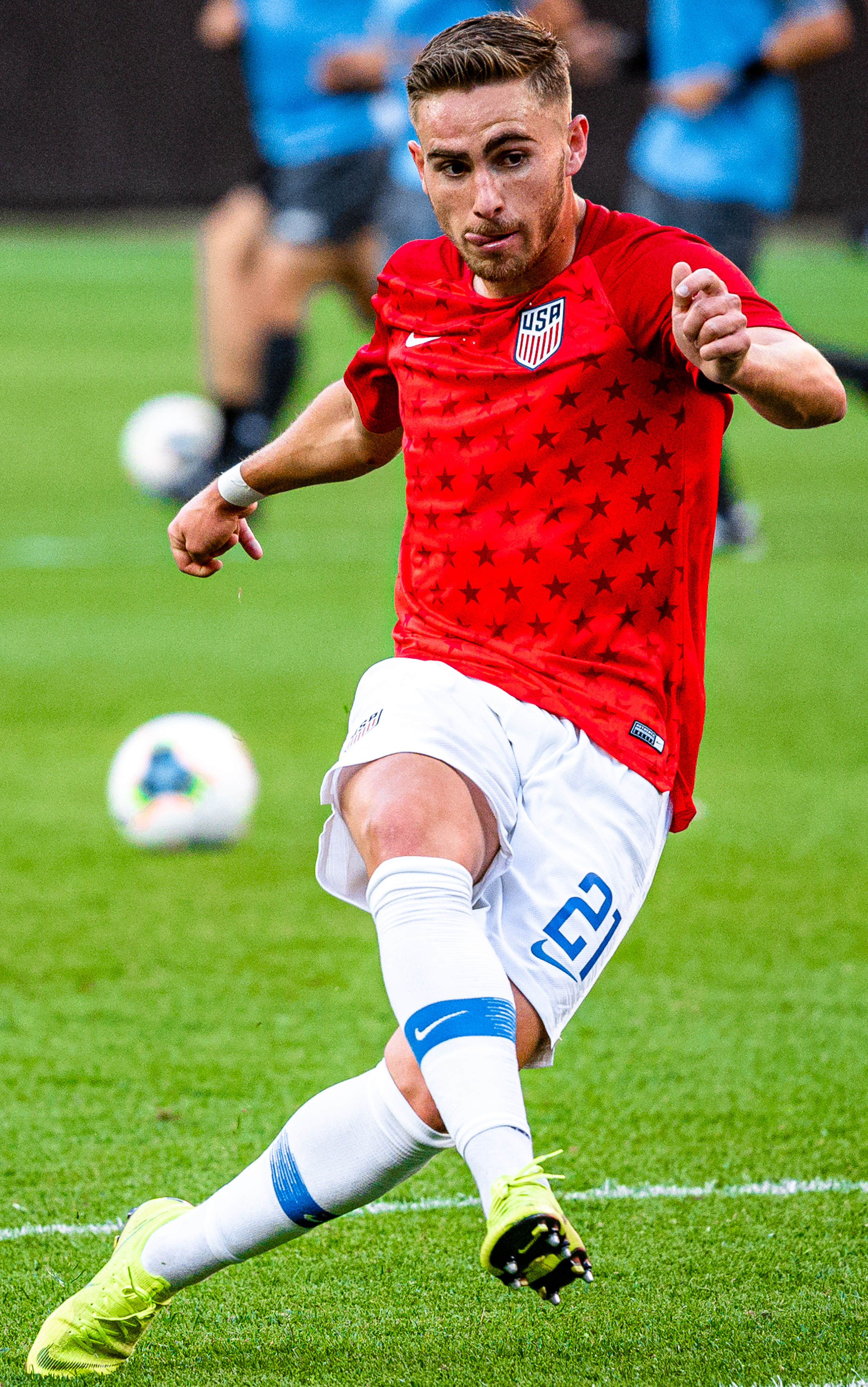 USMNT vs. Trinidad and Tobago